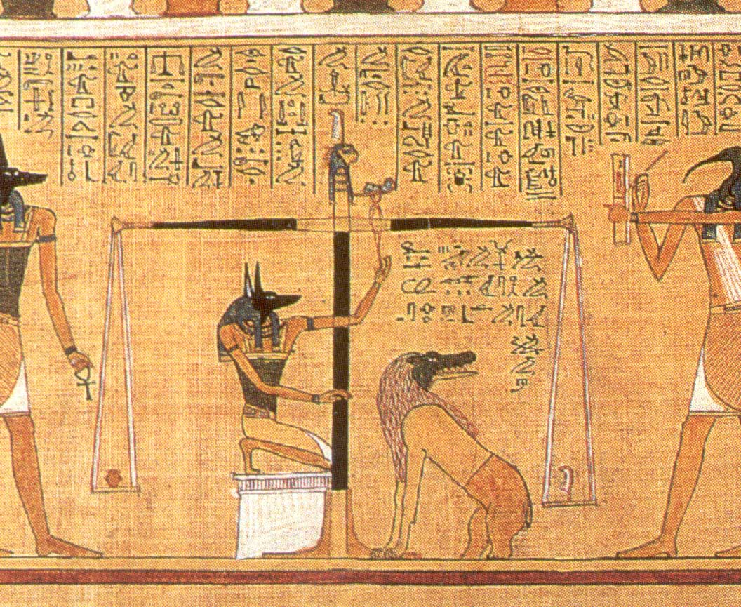 Anubis weighing the heart of Hunefer. Compare with a similar scene in the Papyrus of Ani